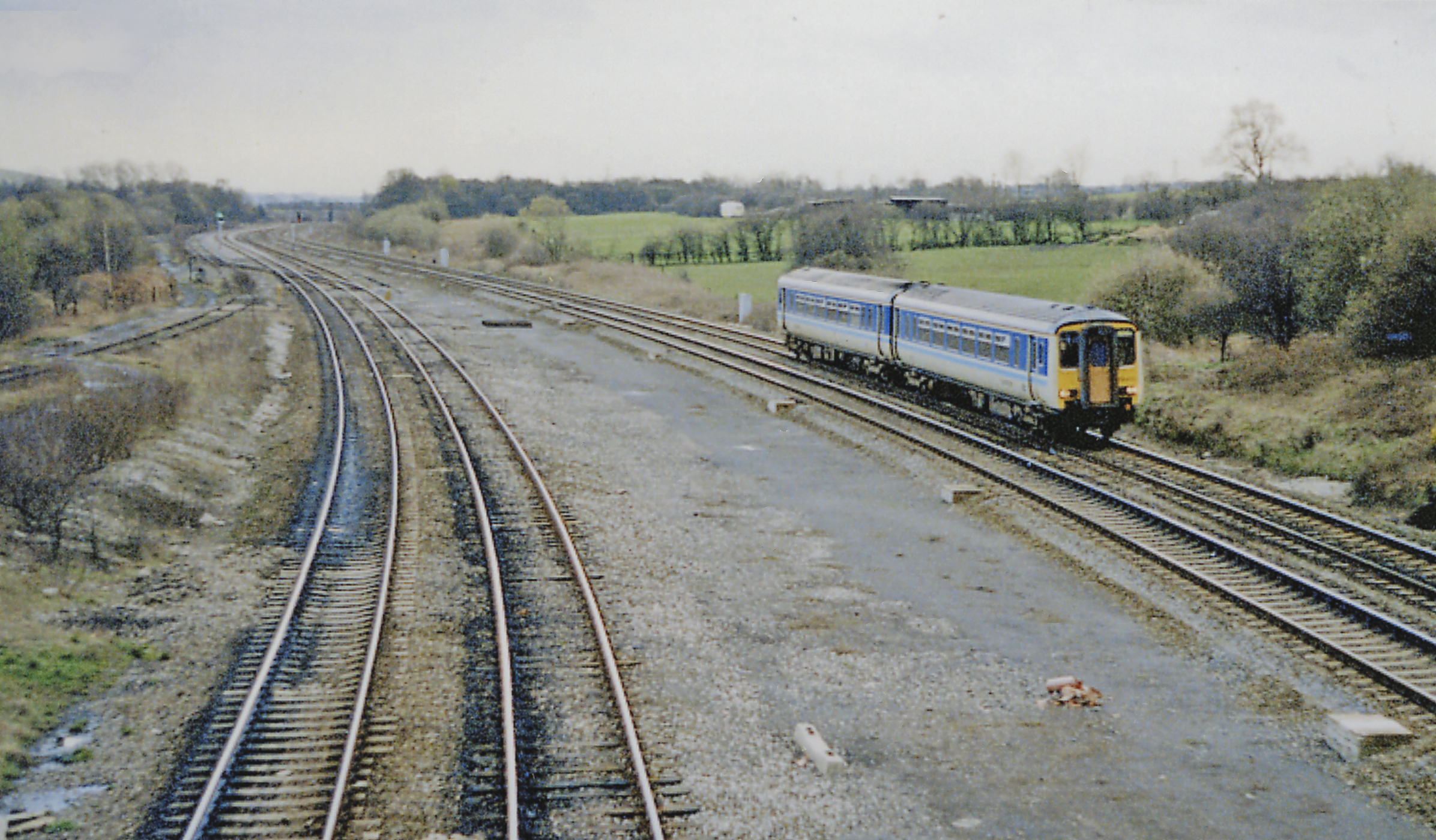 Site of Codnor Park & Ironville station, 1989. View southward, towards Toton Yard, Nottingham etc.: ex-Midland Erewash Valley main line. On this formerly immensely busy line - before the 1980s 'destruction' of the Mining Industry, all that was to be seen was a solitary Class 150 DMU. Nothing was left of the station, which had been closed on 2/1/67.